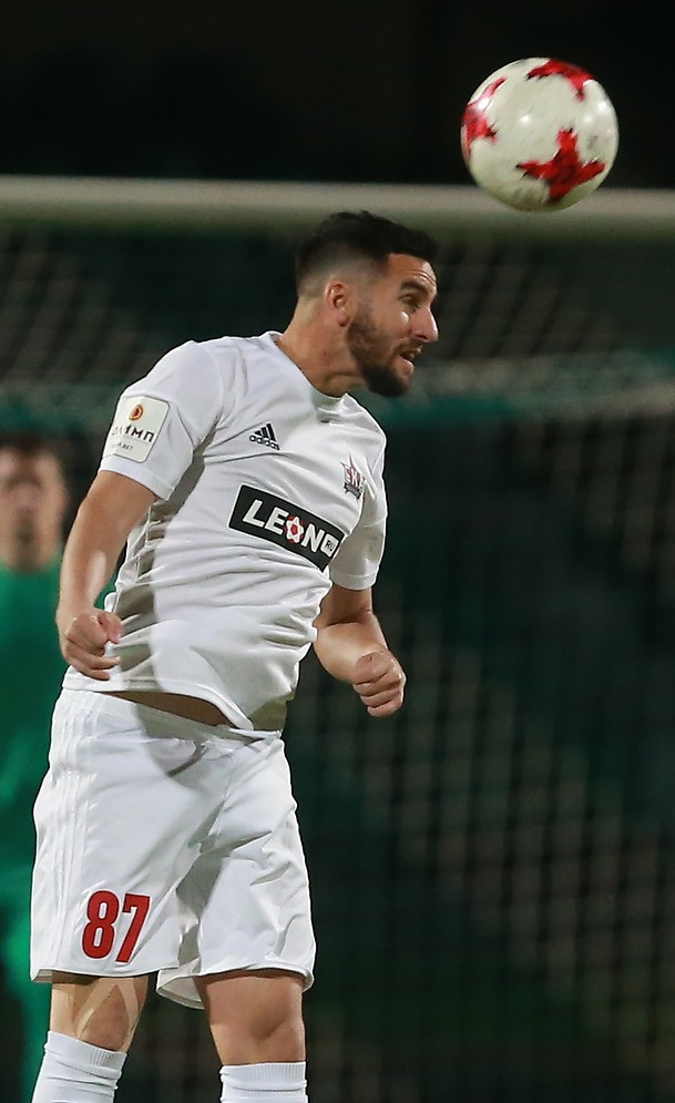 Maksim Kazankov with FC SKA-Khabarovsk in a Russian Cup game against FC Ararat Moscow.